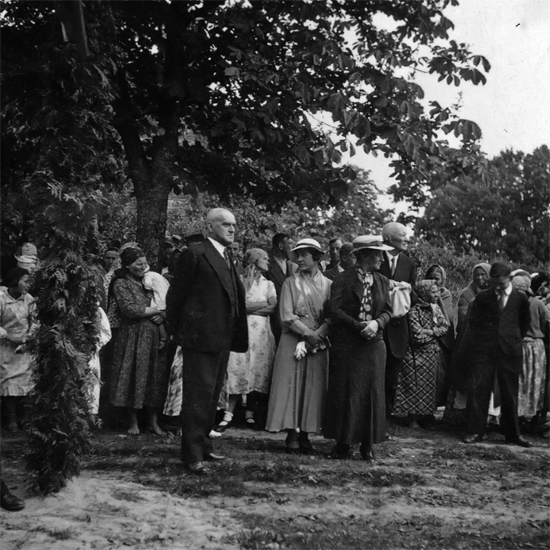 Roman Skirmunt (1868—1939), senator (1930-1935) in Poland